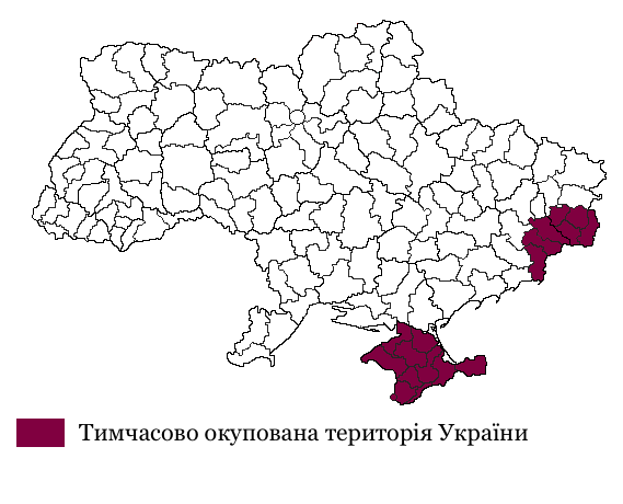 Temporarily occupied territories of Ukraine